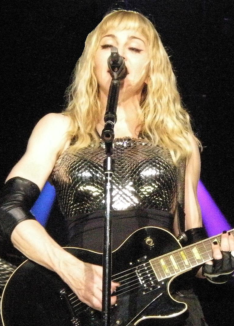 Madonna performs "Ray of Light" in Sofia.